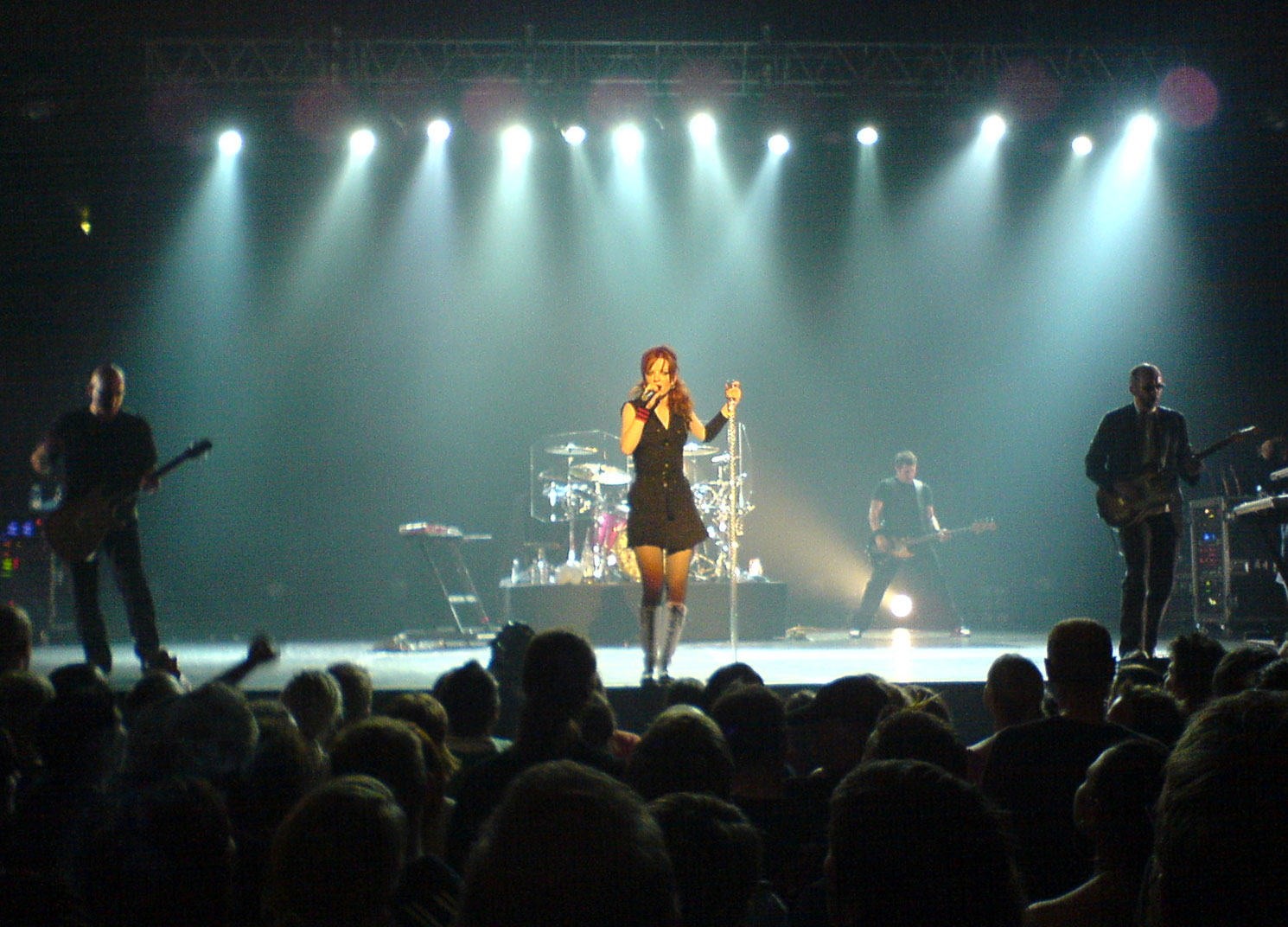 Garbage live i KB Hallen, Copenhagen, Denmark ("bleed like me tour")